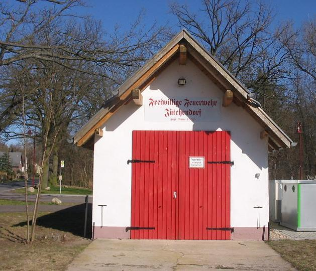 Station of the volunteer fire department in Jütchendorf. The village Jütchendorf is a part of the town Ludwigsfelde in the district Teltow-Fläming, state Brandenburg, Germany. The village is situated in the Nature park Nuthe-Nieplitz.